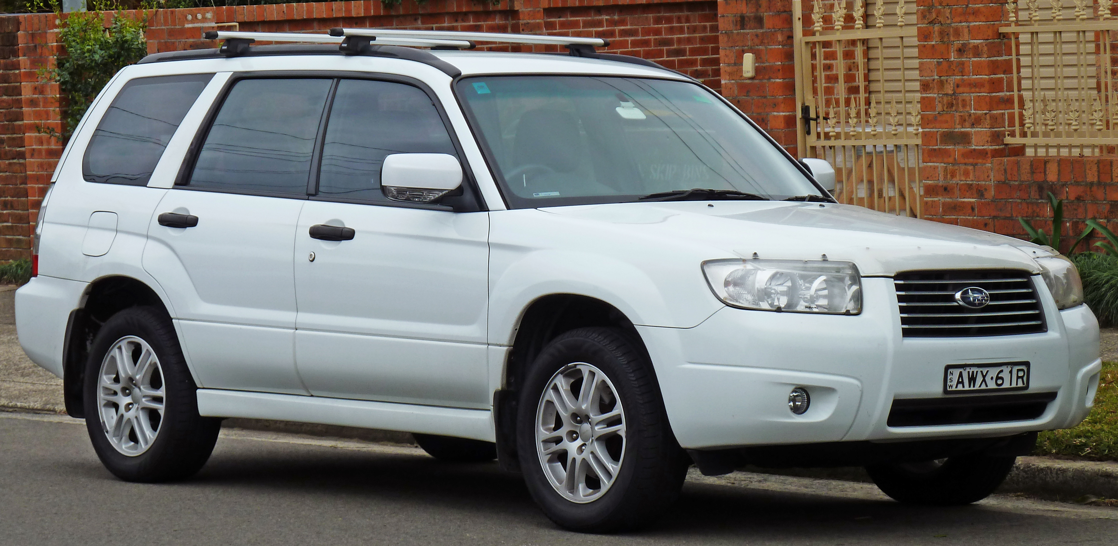 2005–2008 Subaru Forester XS wagon, with 2002–2005 Subaru Forester XT alloy wheels. Photographed in Sandringham, New South Wales, Australia.